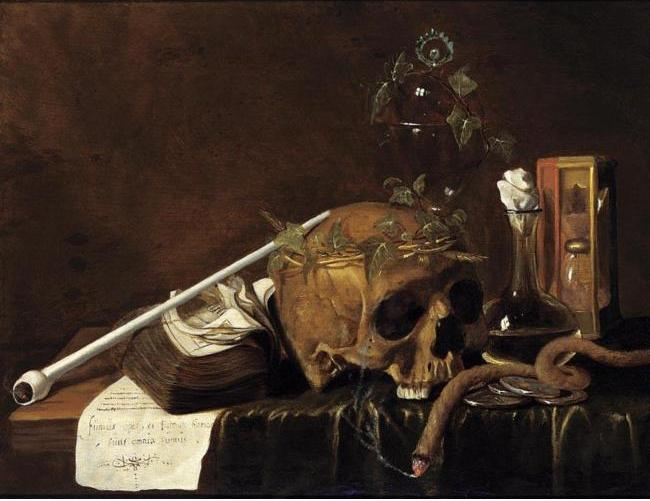 Still Life with skull, book, pipe, caraf, and hour-glass. The skull has a crown of straw and ivy. The appearance of the same skull in three paintings by Pieter van Willigen and similar links in other works has led through the years to the attribution of works by Andriessen to van der Willigen, who may have been his pupil.